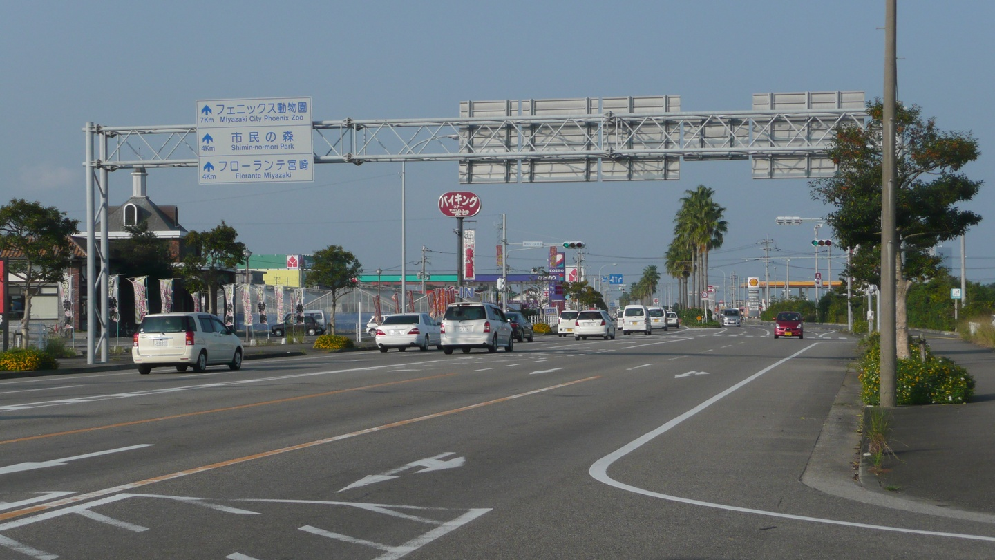 Miyazaki Prefectural Road 11 (Aeonmall Miyazaki - Shinbeppu-cho, Miyazaki City, Japan)